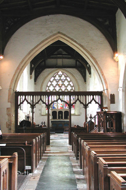 Inside the nave of Holy Cross parish church, Sparsholt, Oxfordshire (formerly Berkshire), looking east to the chancel